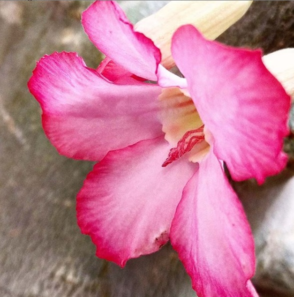 arabicums flower